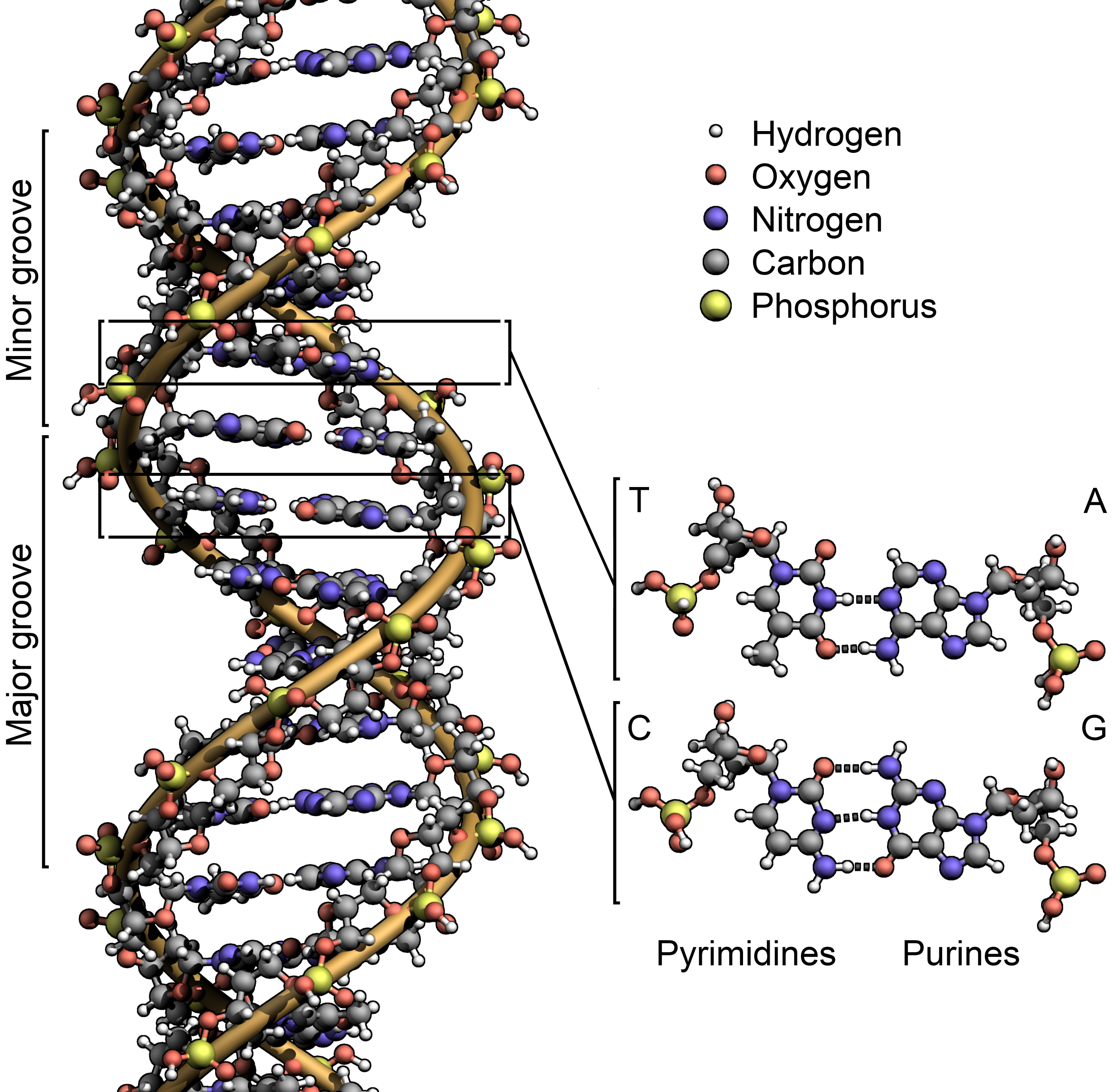 The structure of DNA showing with detail showing the structure of the four bases, adenine, cytosine, guanine and thymine, and the location of the major and minor groove.